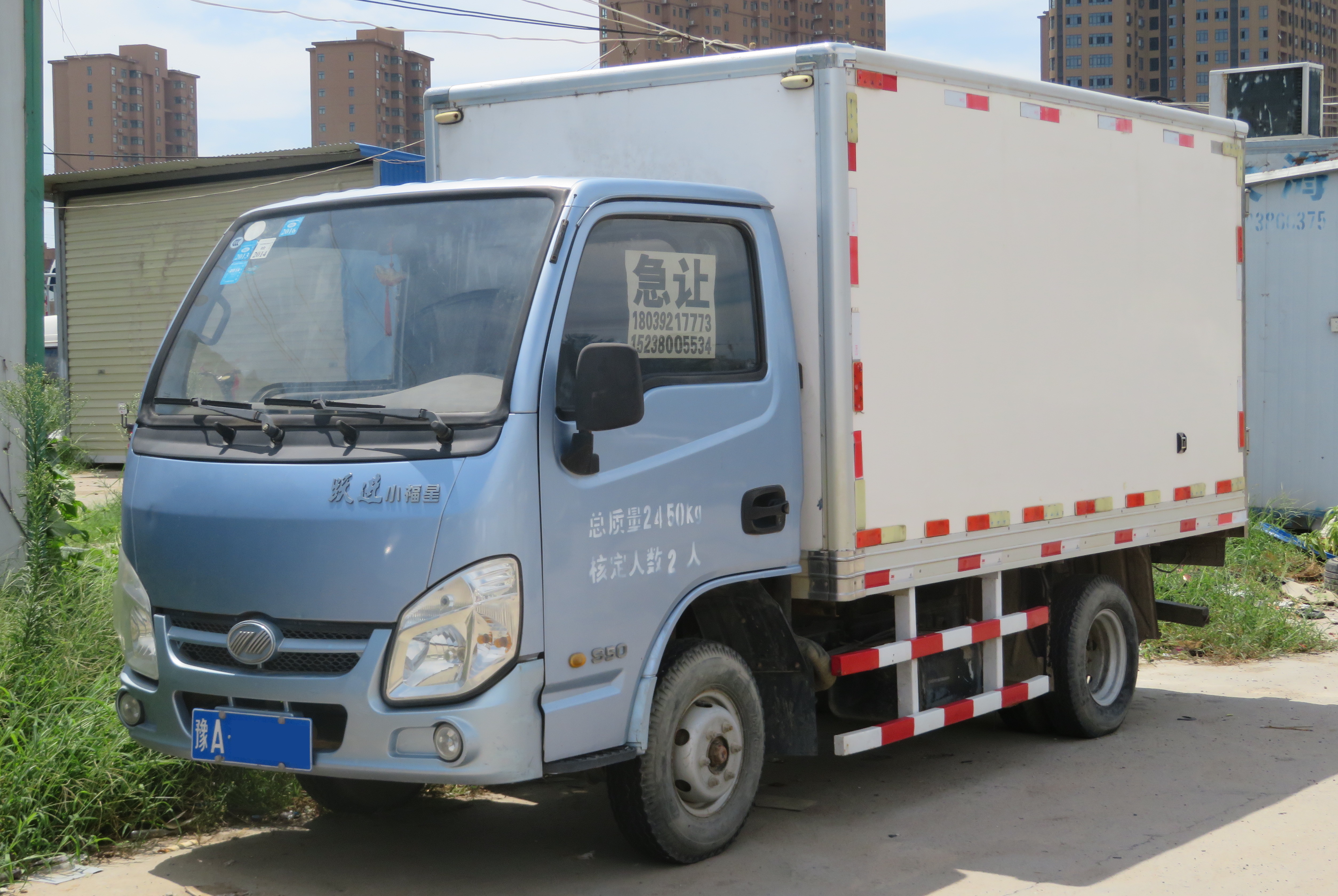 Photographed in Zhengzhou, Henan province, China